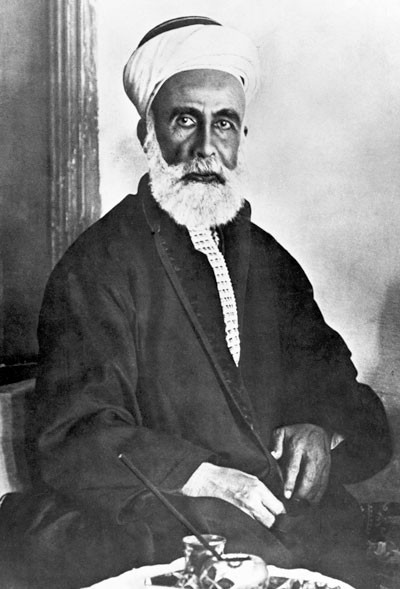 Hussein Bin Ali